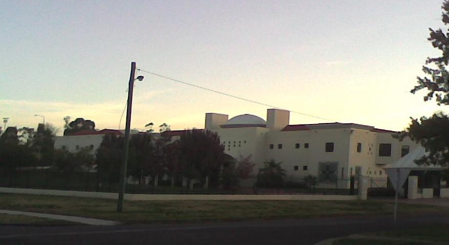 Saudi Embassy in Canberra